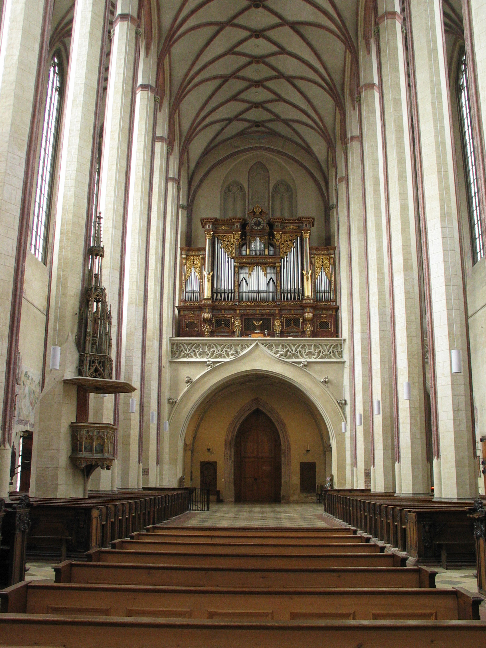 Landshut, Germany, Church of St Martin, interior view of main aisle and organ loft